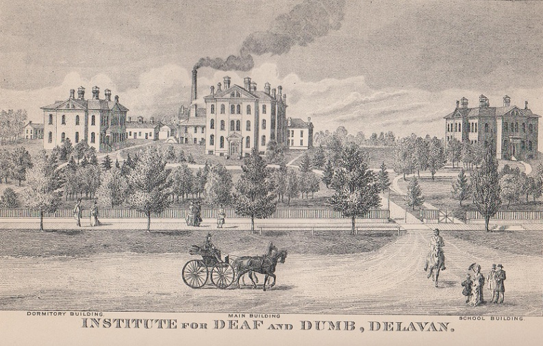 Illustration from the 1885 Wisconsin Blue Book, of the Institution for the Education of the Blind, in Janesville, Wisconsin.